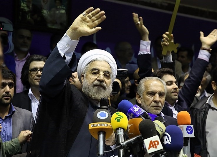 Presidential candidate, Hassan Rouhani's election convention in Shahid Shiroudi Hall, Tehran